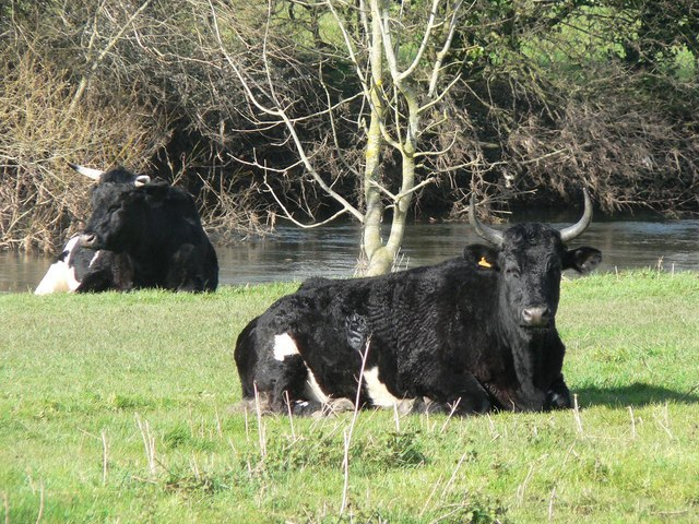 Muscliff: Shetland Cattle These cattle are unpaid employees of Bournemouth Borough Council, on a fixed-term contract till the autumn, as part of the Council's ongoing site management through conservation grazing. The sign warning of their presence is here 734936